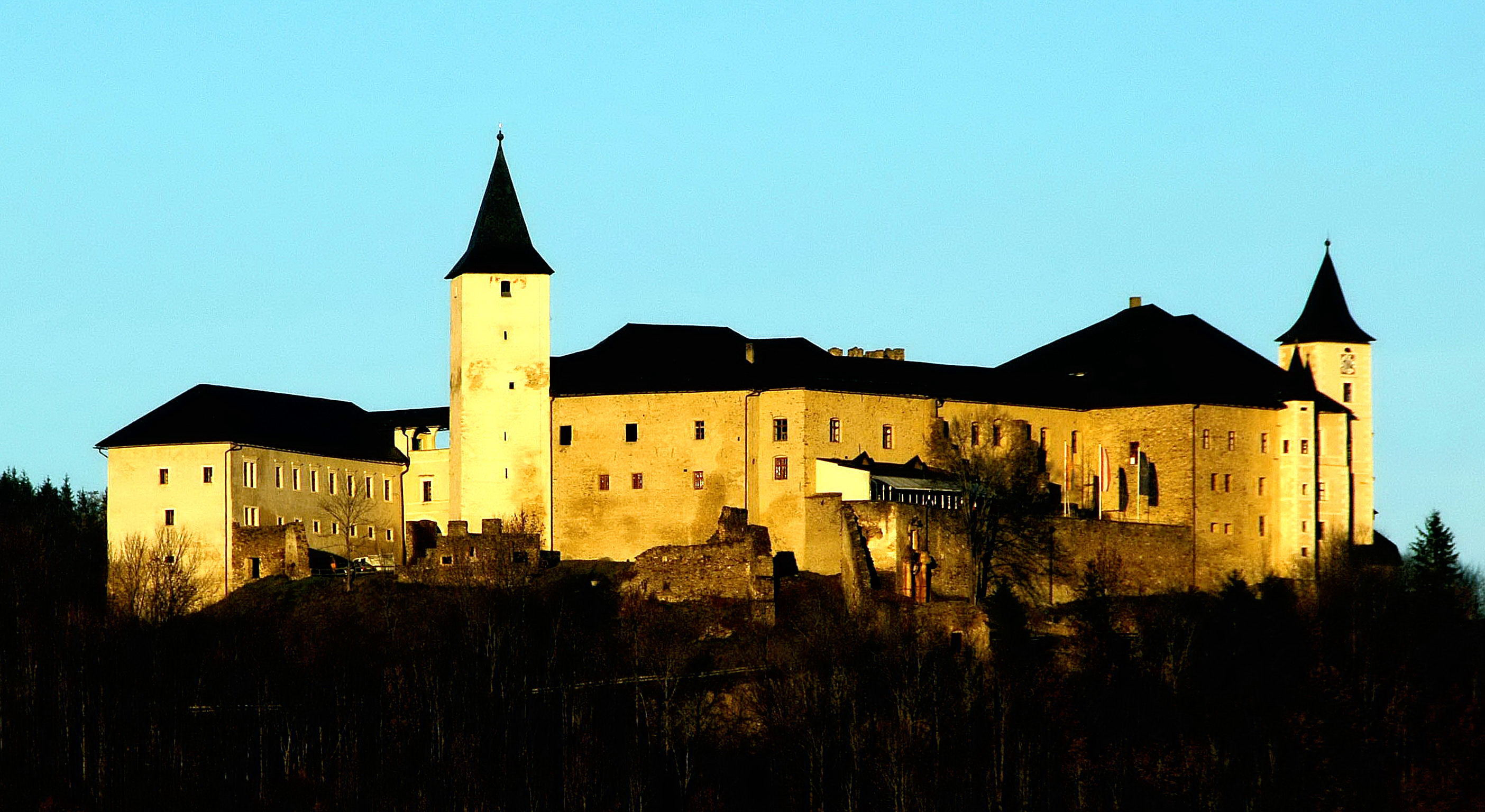 Bishop`s castle, city Strassburg, district Sankt Veit an der Glan, Carinthia, Austria, EU